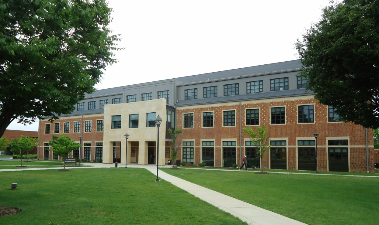 Campus view of The College of New Jersey or TCNJ, in Ewing, New Jersey.